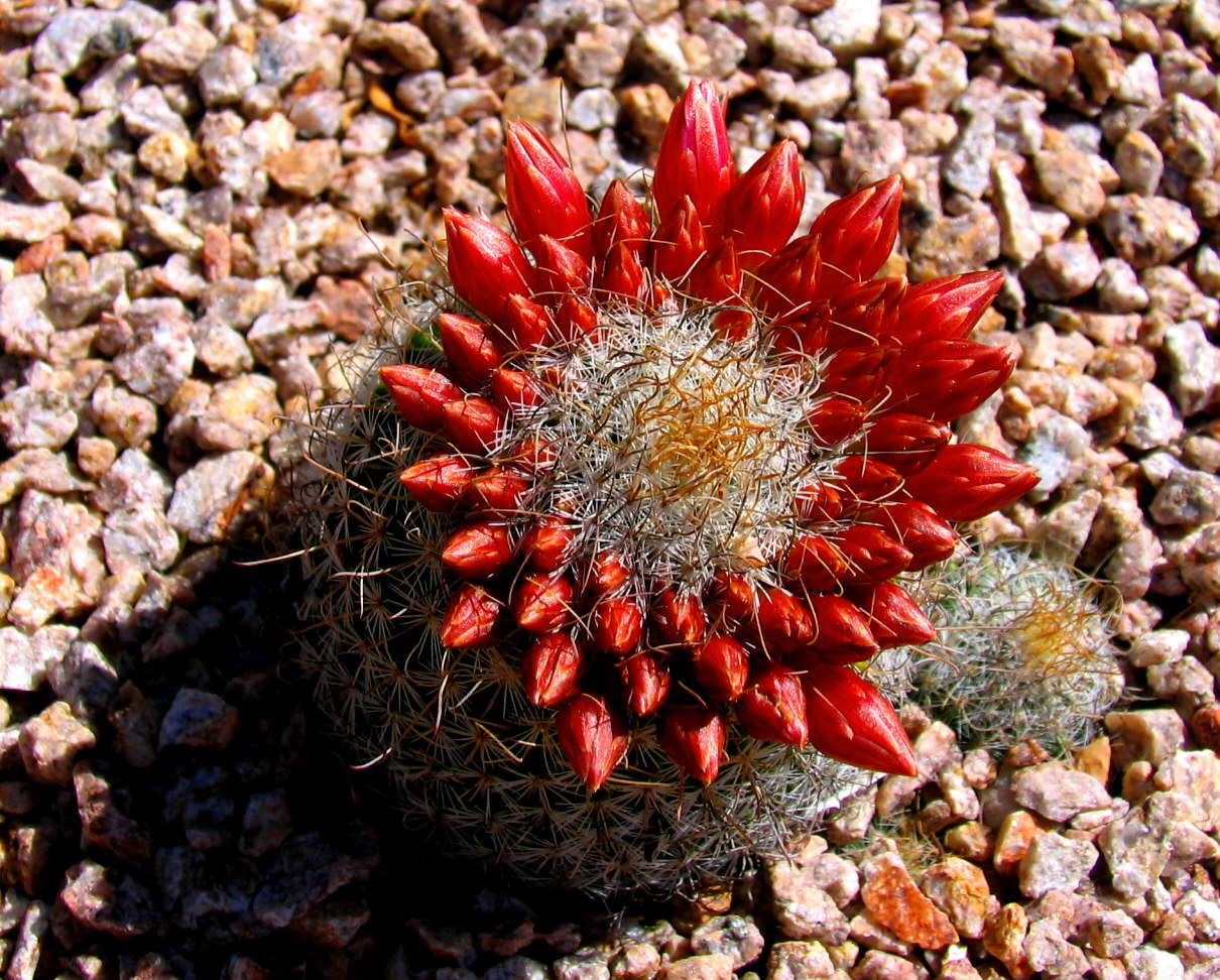 Cactus flower buds